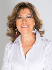 Maria Elisabetta Alberti Casellati, Italian politician